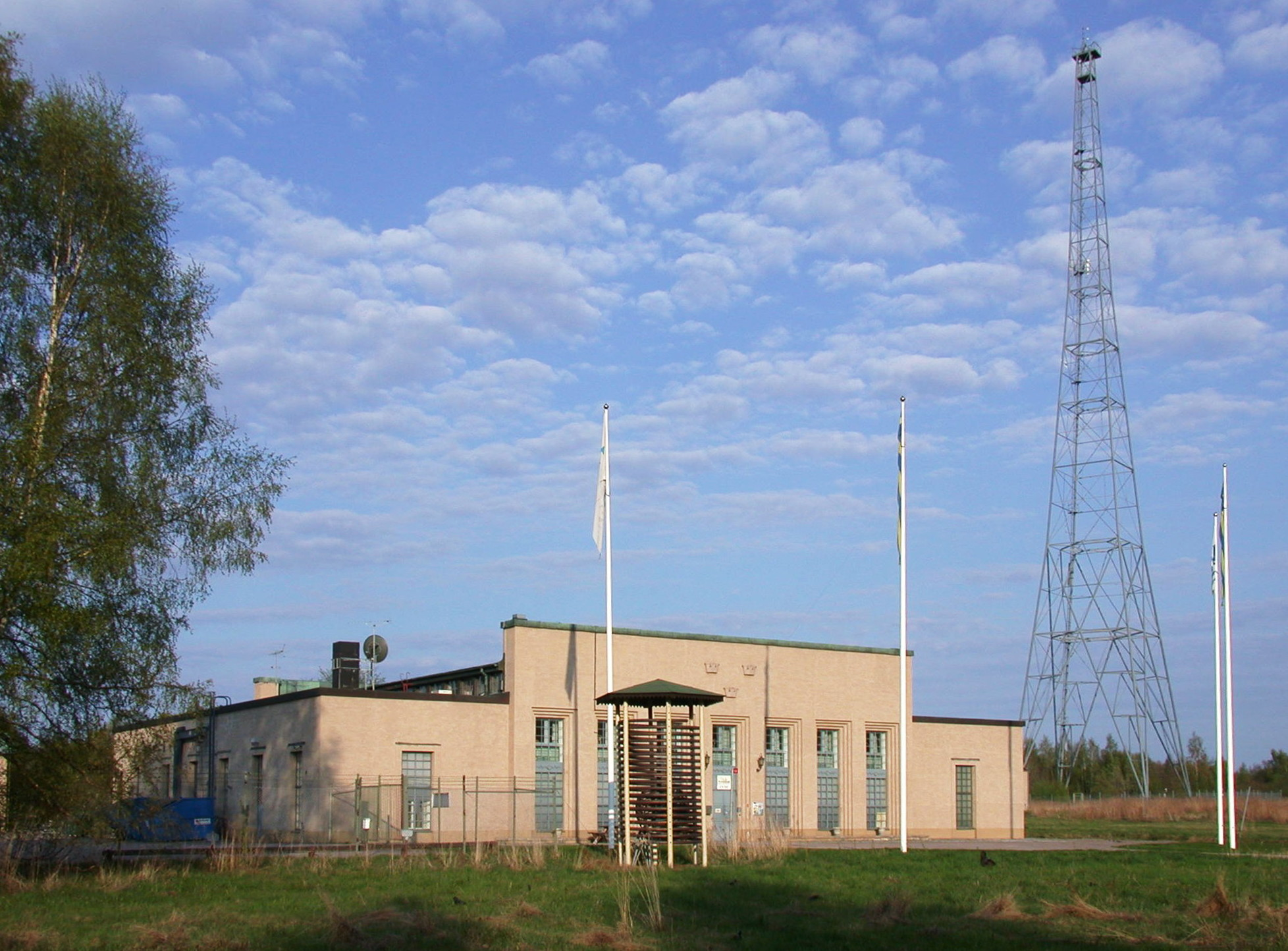 The old long wave radio station in Motala, Sweden.